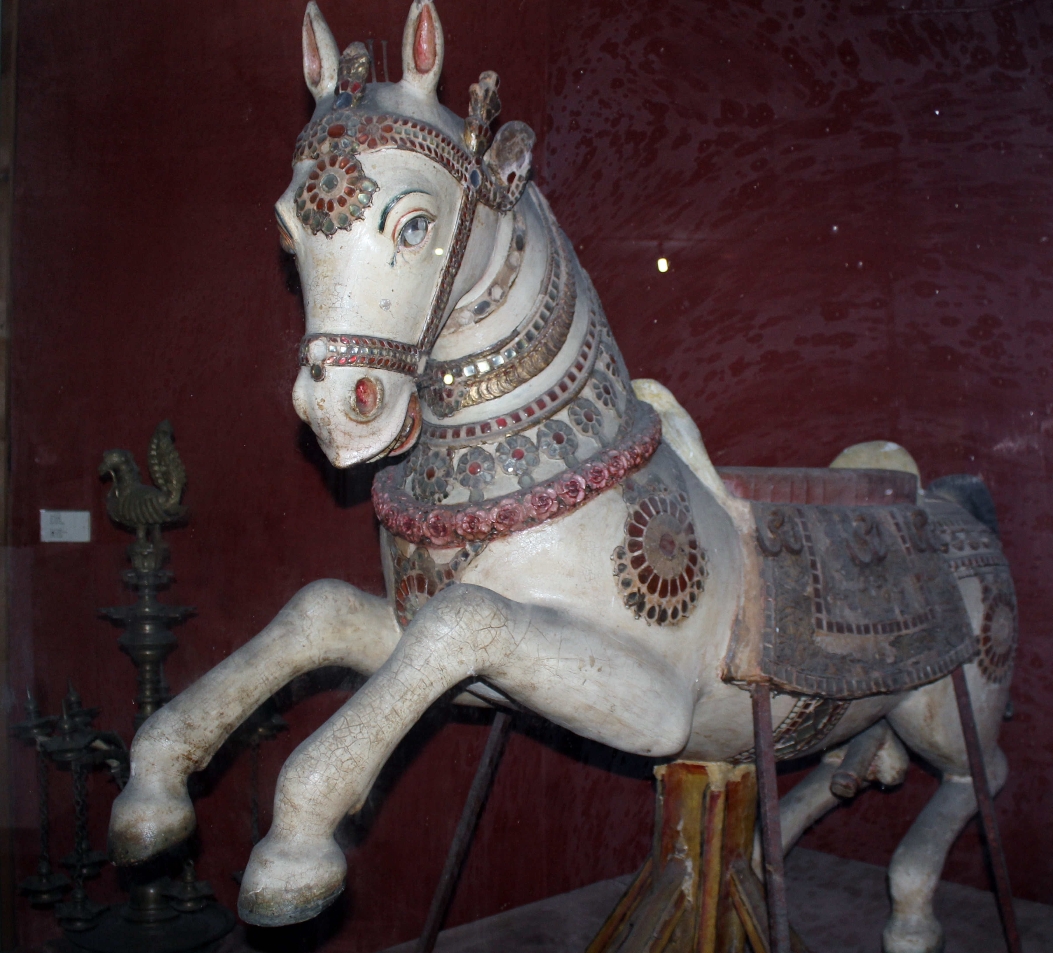 Horse made of wood in the decorative arts gallery